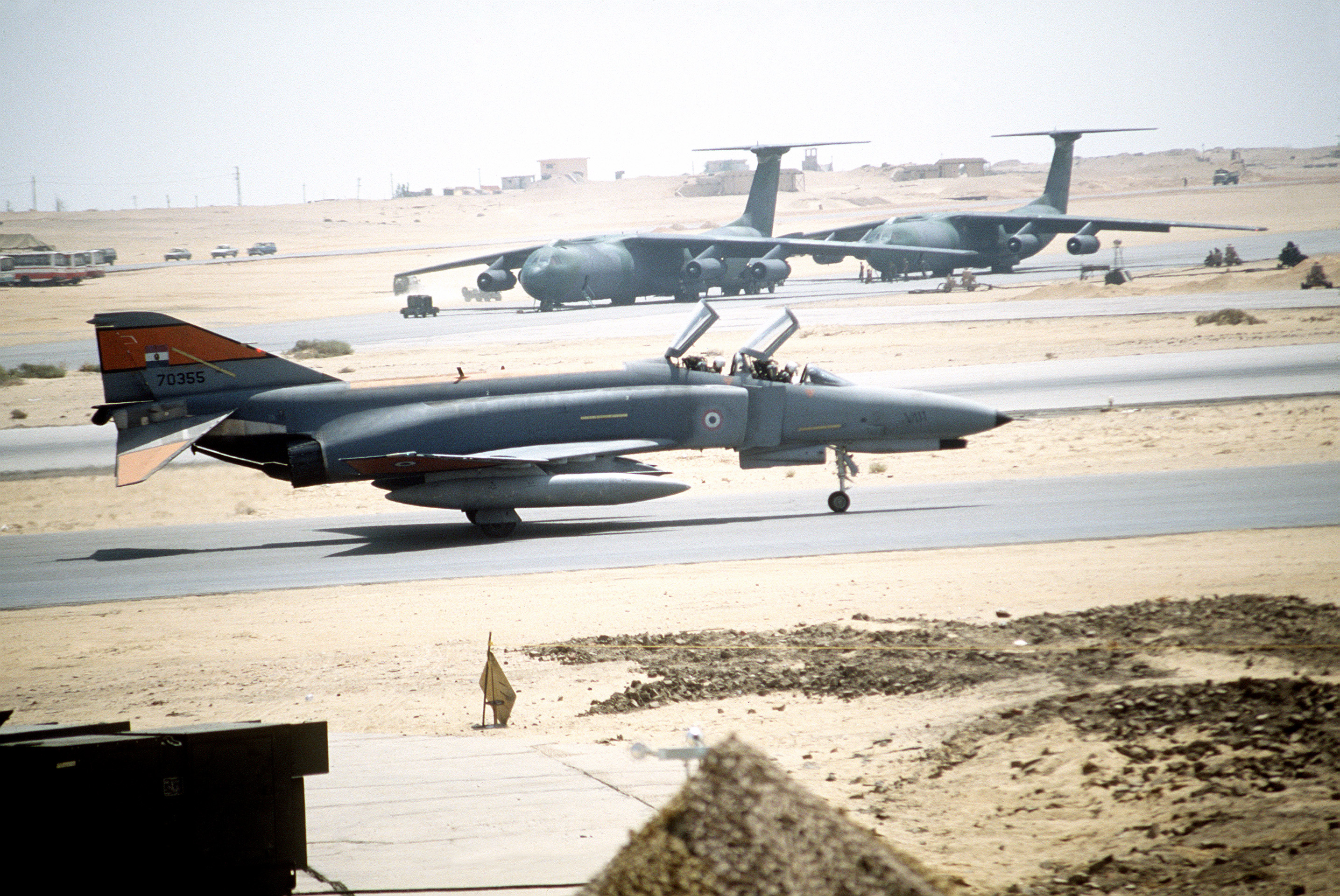 An Egyptian F-4E Phantom II aircraft taxis along the flight line during the multinational joint service Exercise BRIGHT STAR '85.